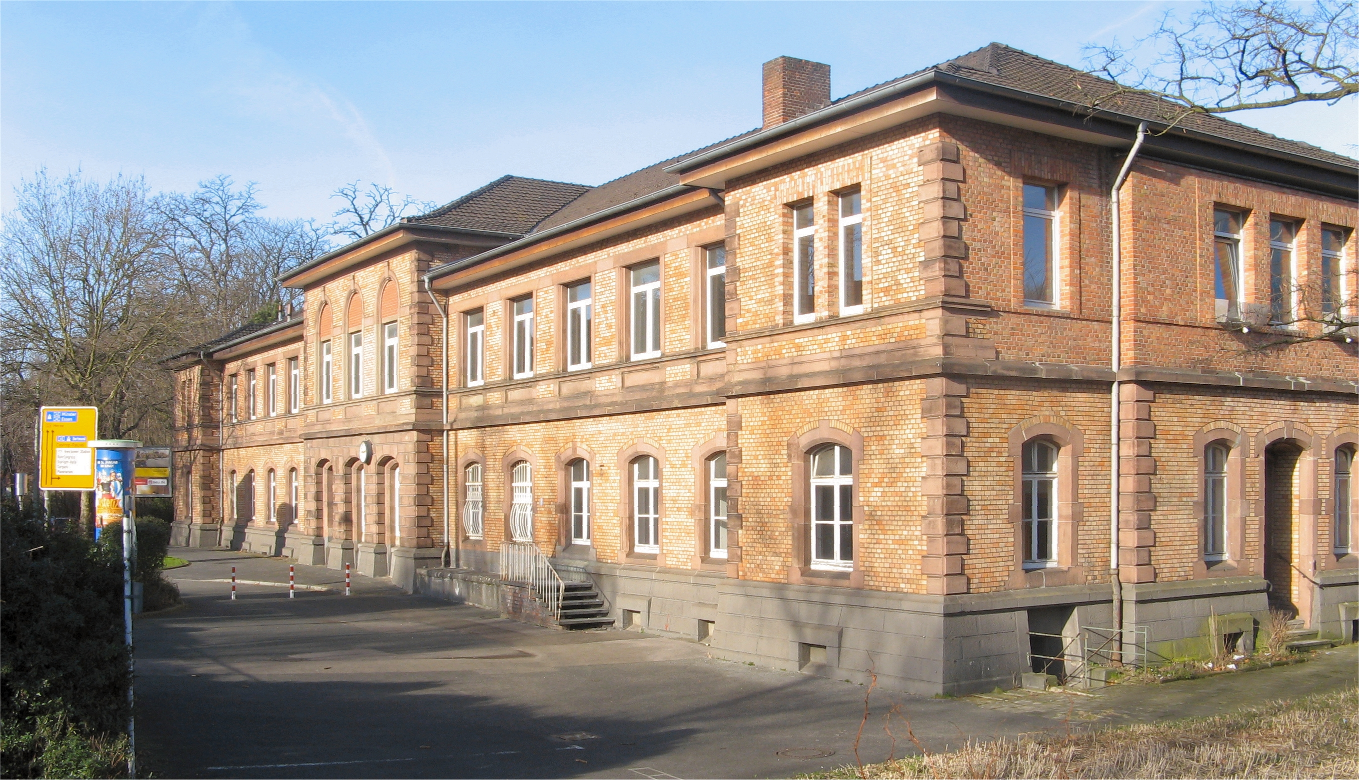 Der ehemalige Nordbahnhof The former Station North, since decades unused but still in a good condition